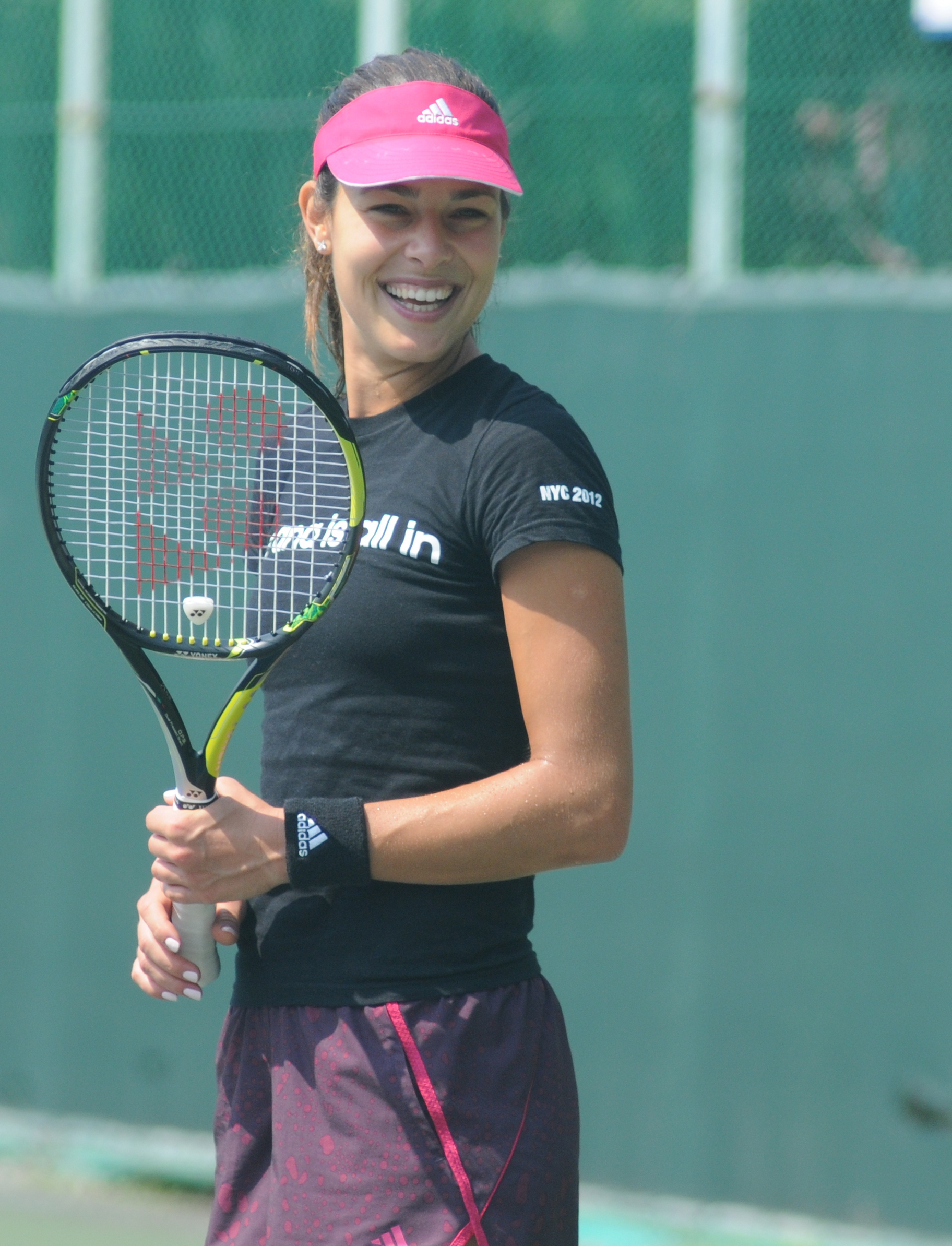 Ana Ivanović at the 2014 Toray Pan Pacific Open